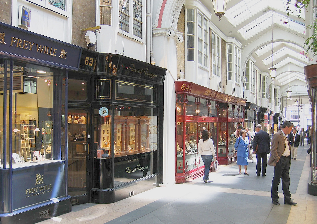 Clean up version of File:Burlington Arcade, shops.jpg